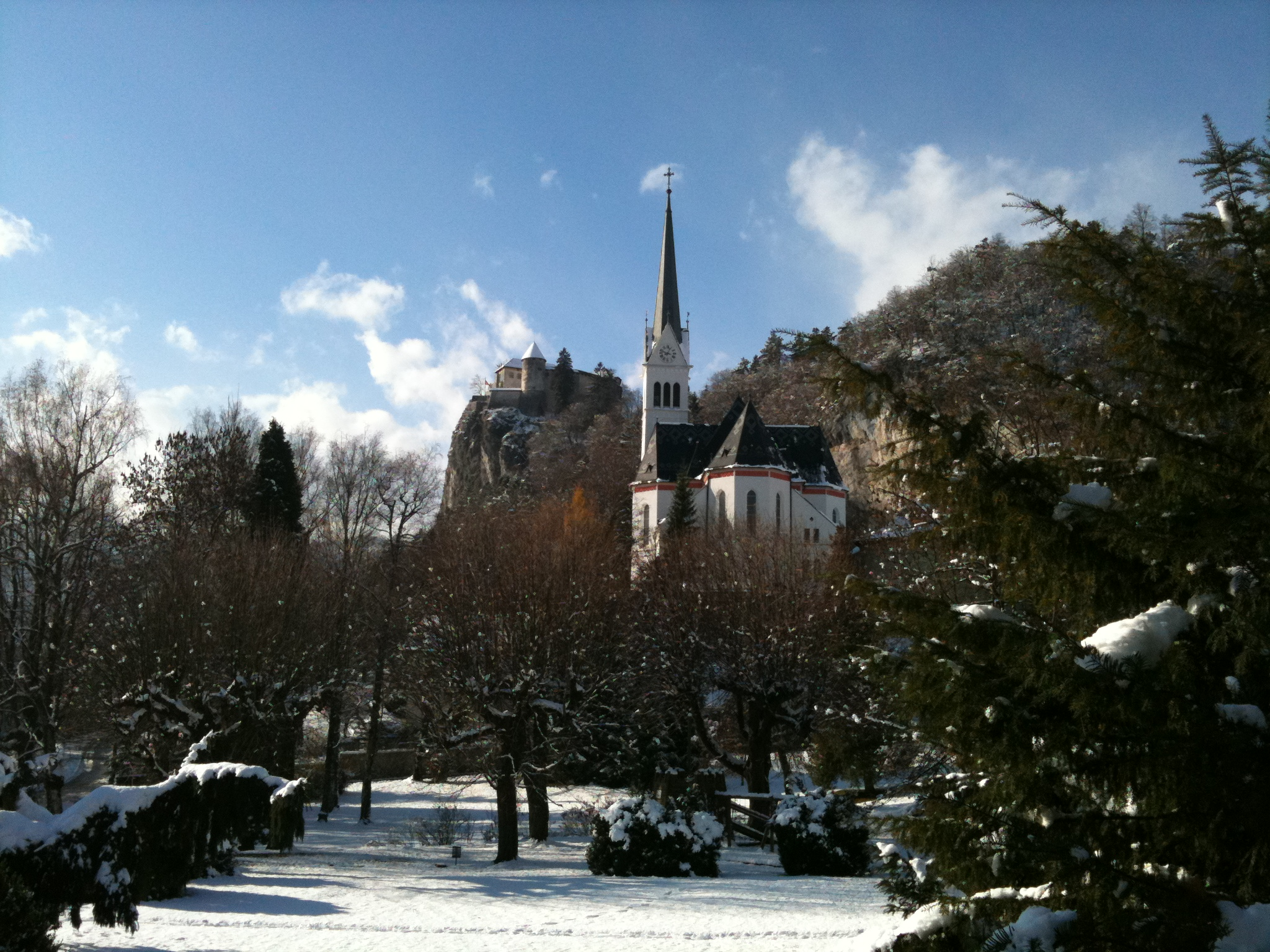 St Martins Church, Bled, Slovenia